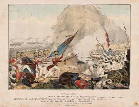 The death of Major-General Charles Horace Churchill at the battle of Maharajpore (1843). Coloured lithograph, published by Page and Blackwood, March 1844.